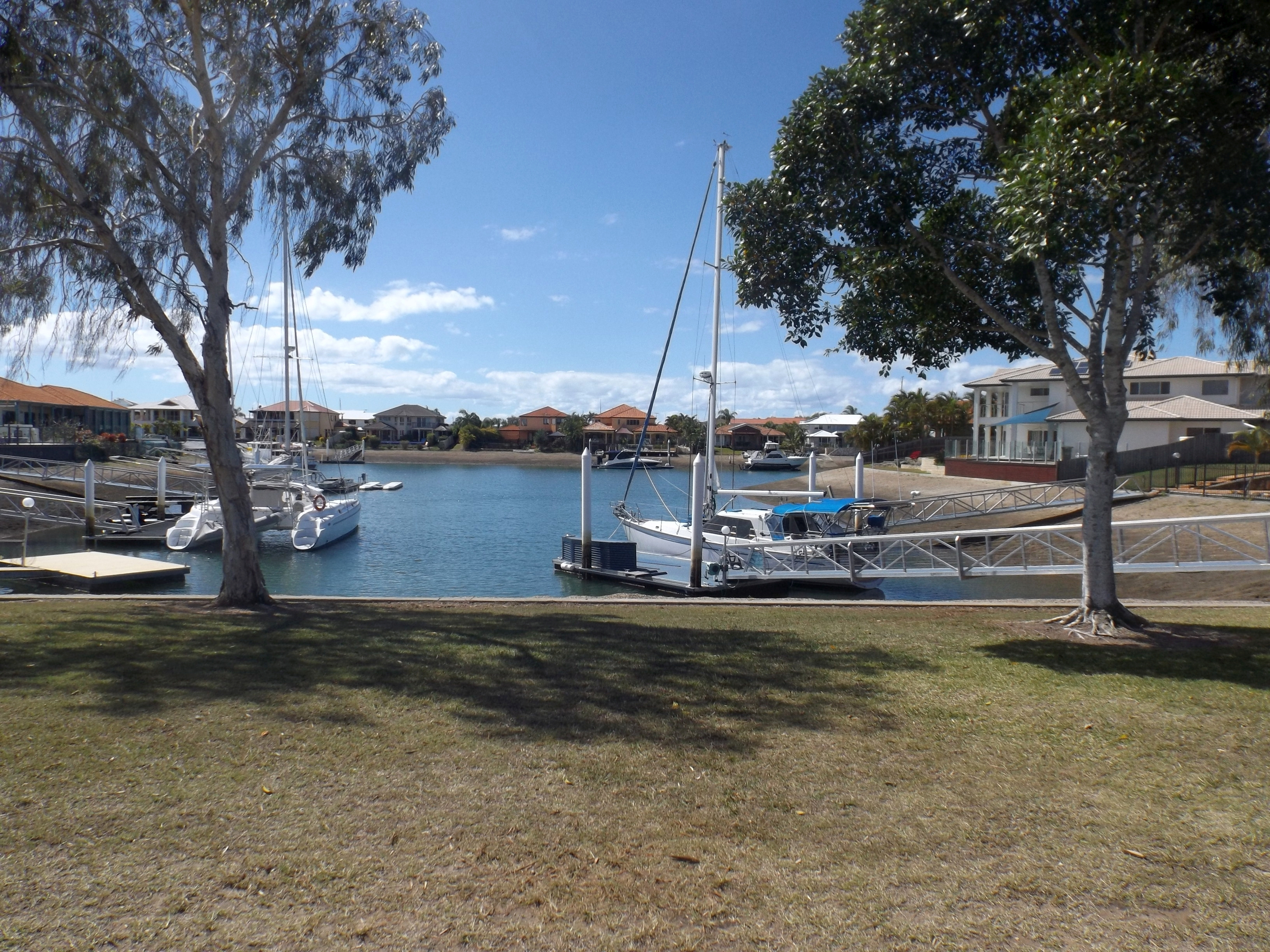 Photo of Swan Canal from Defender Street at Newport, Moreton Bay Region, Queensland, Australia.